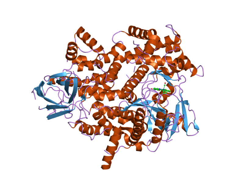 Cartoon representation of the molecular structure of protein registered with 3csf code.